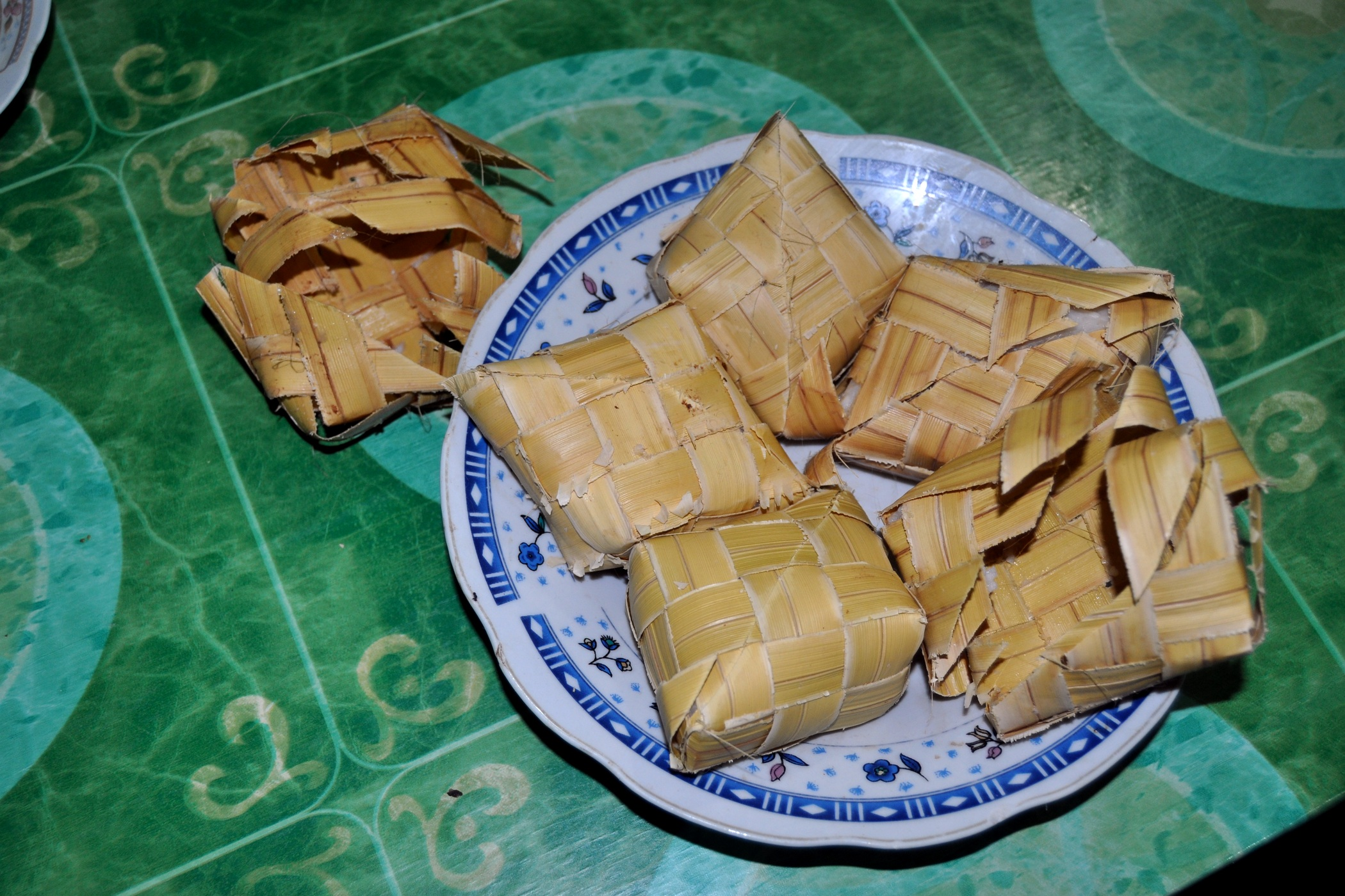 Ketupat made of nipah's leaves; from Sangatta, East Kalimantan, Indonesia.